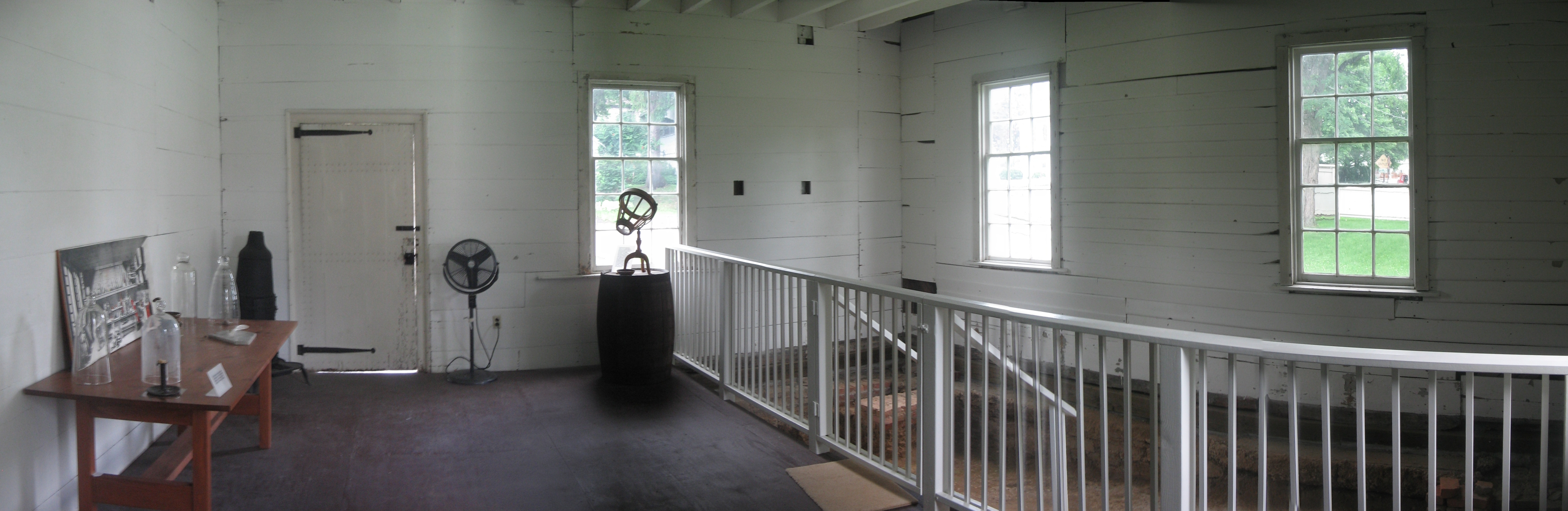 Panoramic view of the north end of the Laboratory with excavation of lab floor showing remnants of one lab oven in the Joseph Priestley House in Northumberland, Northumberland County, Pennsylvania, USA. The lab's fume hood was above this oven.